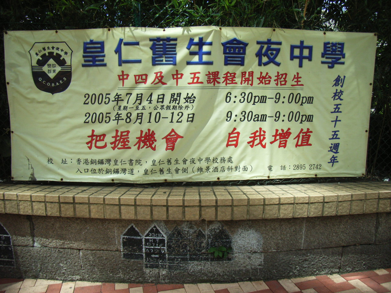 A poster shows QC has evening school in Tung Lo Wan Road, Causeway Bay, Hong Kong. Author: BEVERLYSHEN